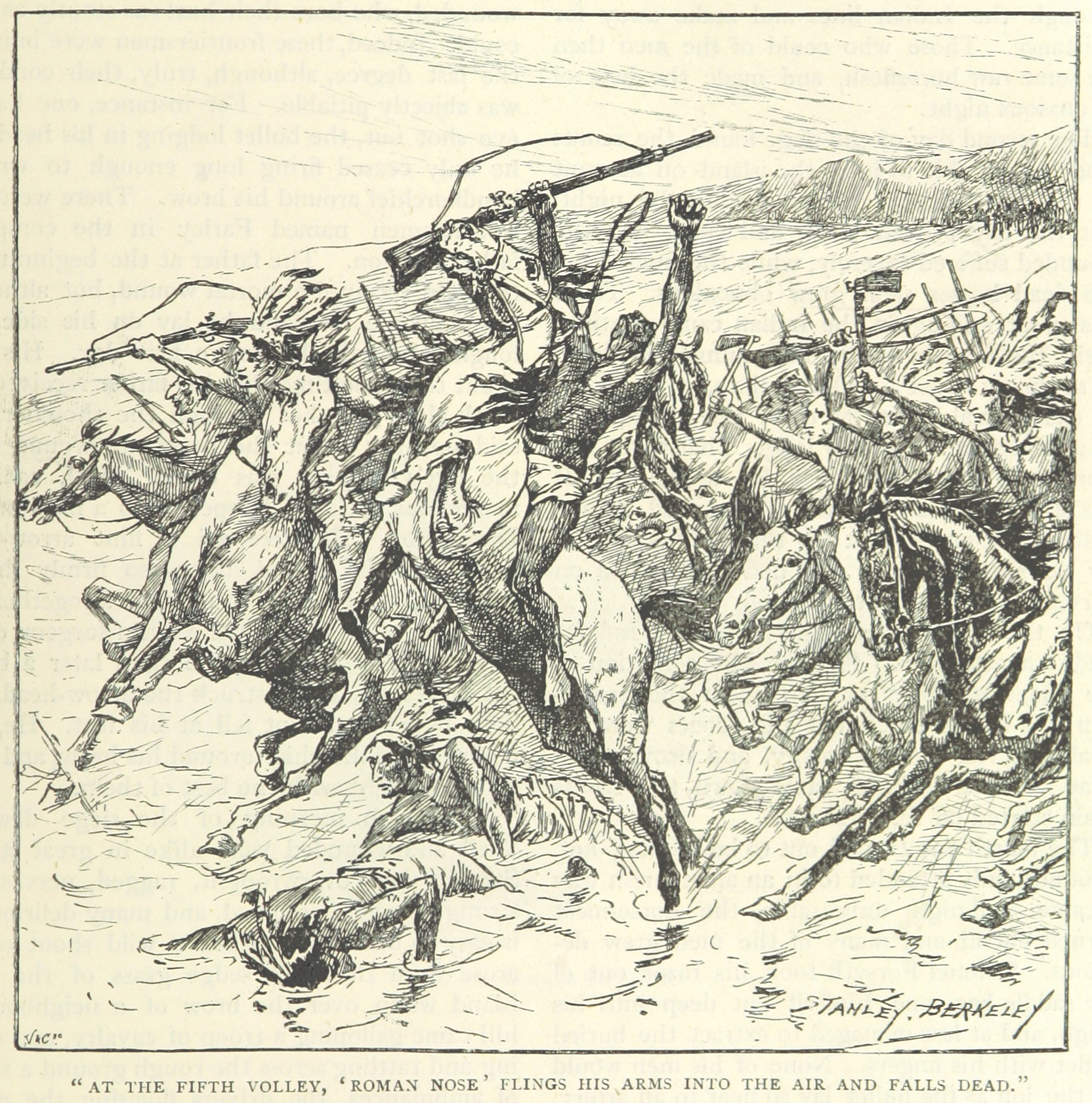 Chyanne leader Roman Nose is killed at the Battle of Beecher Island.